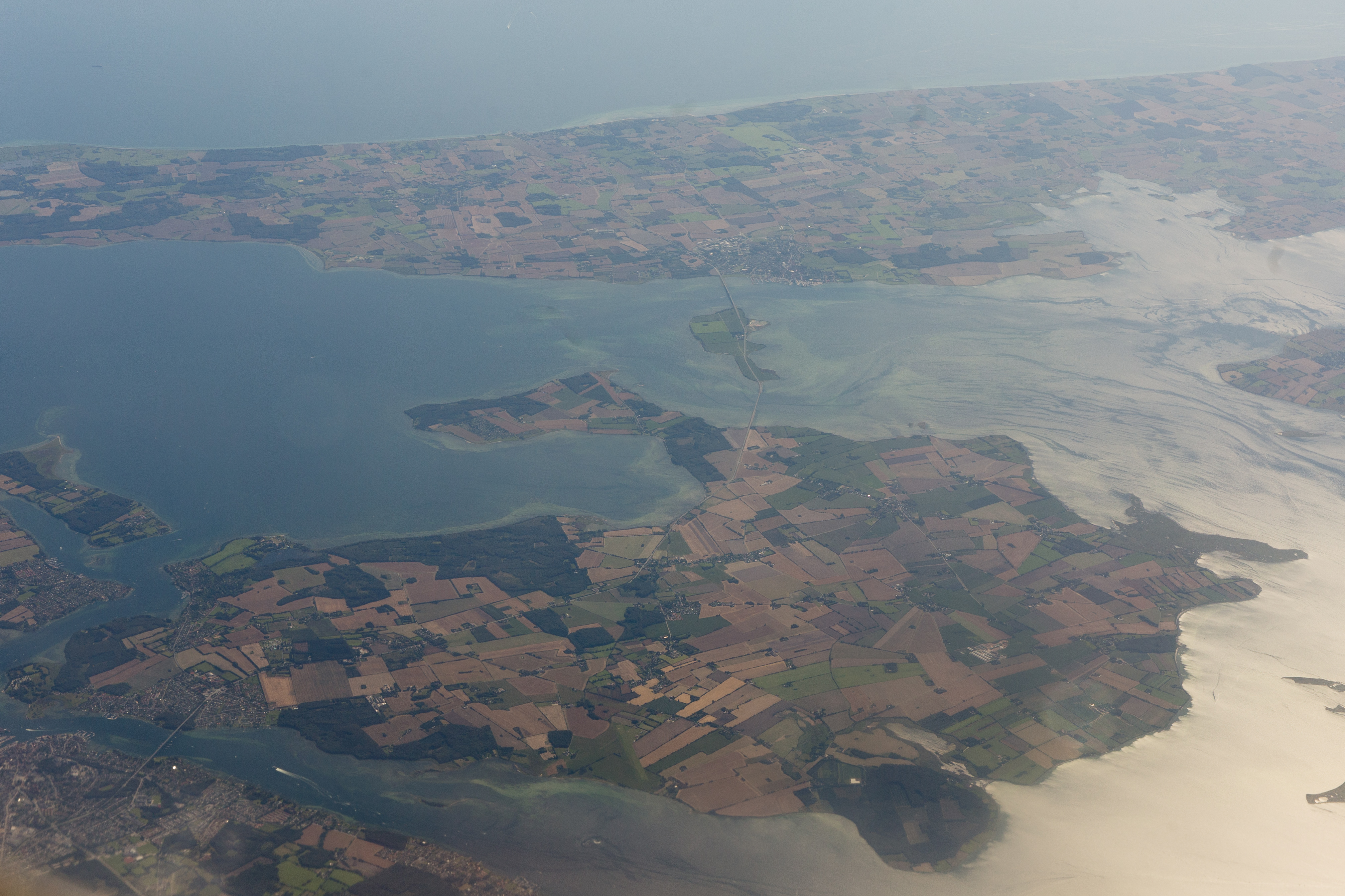 Aerial view of Tåsinge during a flight from ARN to CDG.